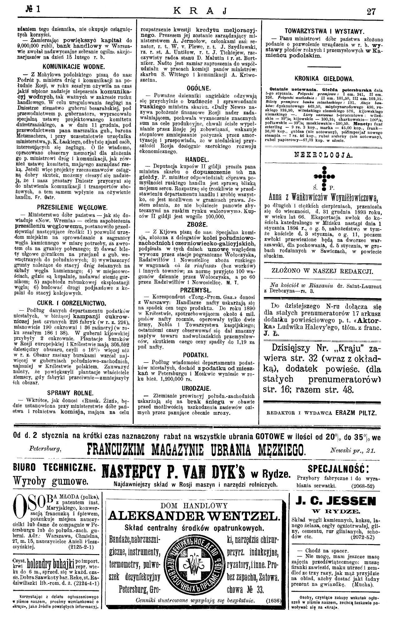 magazine "Kraj" (Russian empire), #1, 1894 AD, page 27. Nekrolog of Anna Woynillowicz (1826-1893), Edward Woynillowicz (1847-1928)'s mother